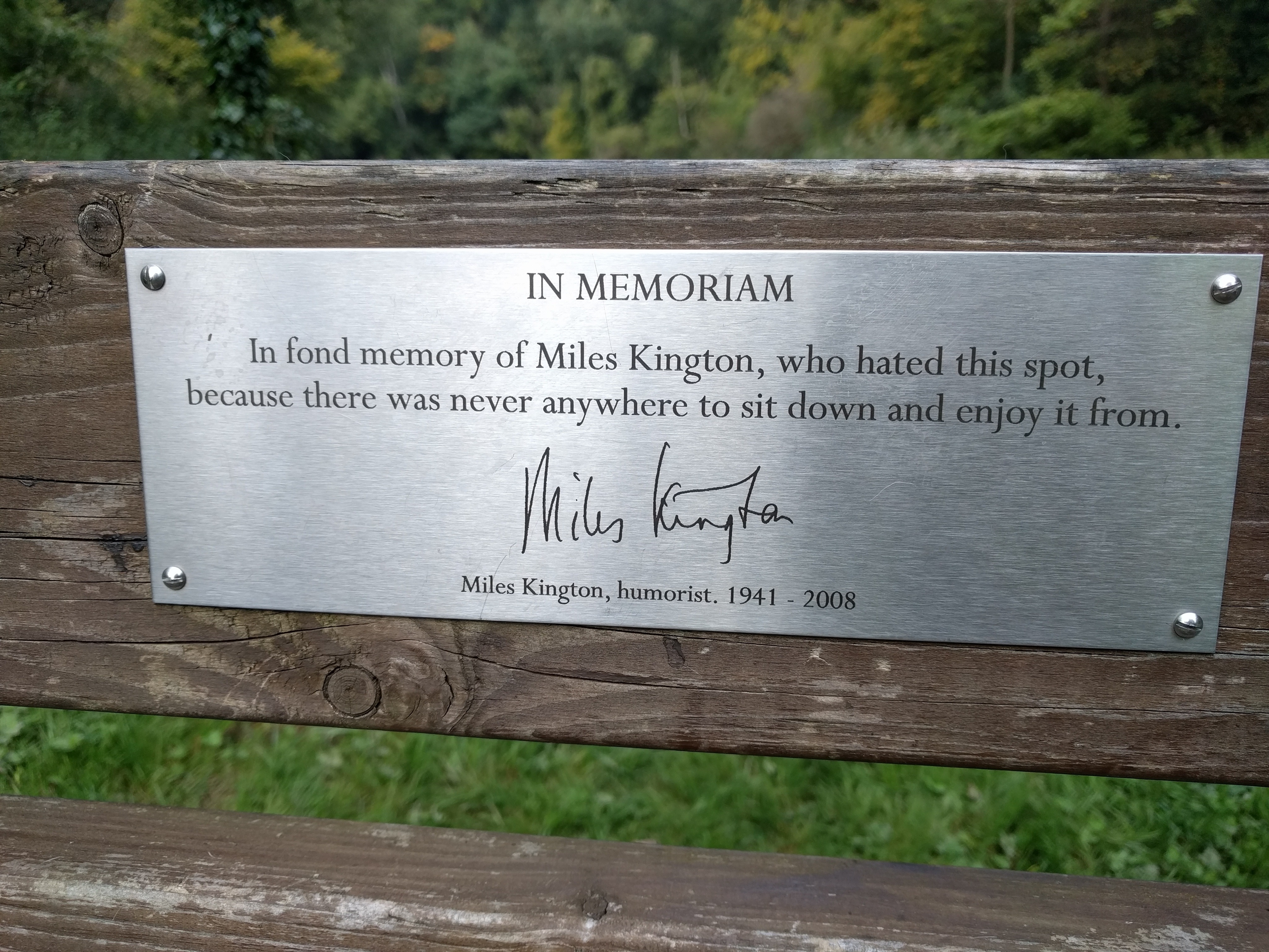 Miles Kington memorial bench, Conkwell, Wiltshire, England